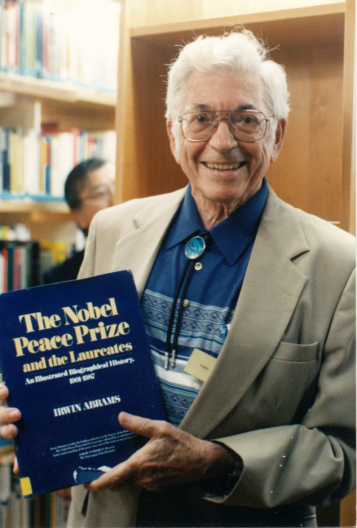 Irwin Abrams holding up a copy of his book "The Nobel Peace Prize and the Laureates"